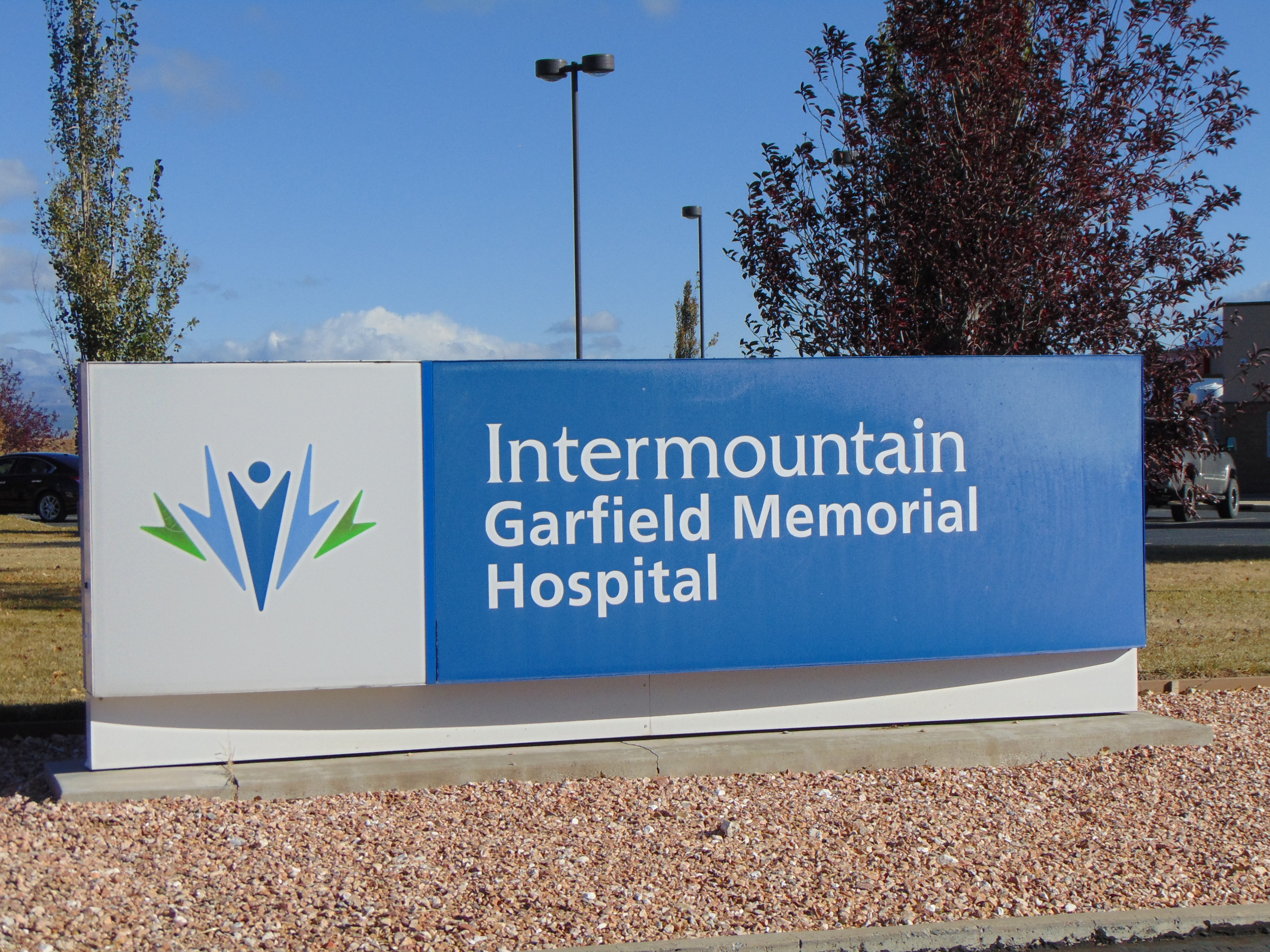 Sign for the Garfield Memorial Hospital (operated by Intermountain Healthcare) in Panguitch, Utah, October 2017